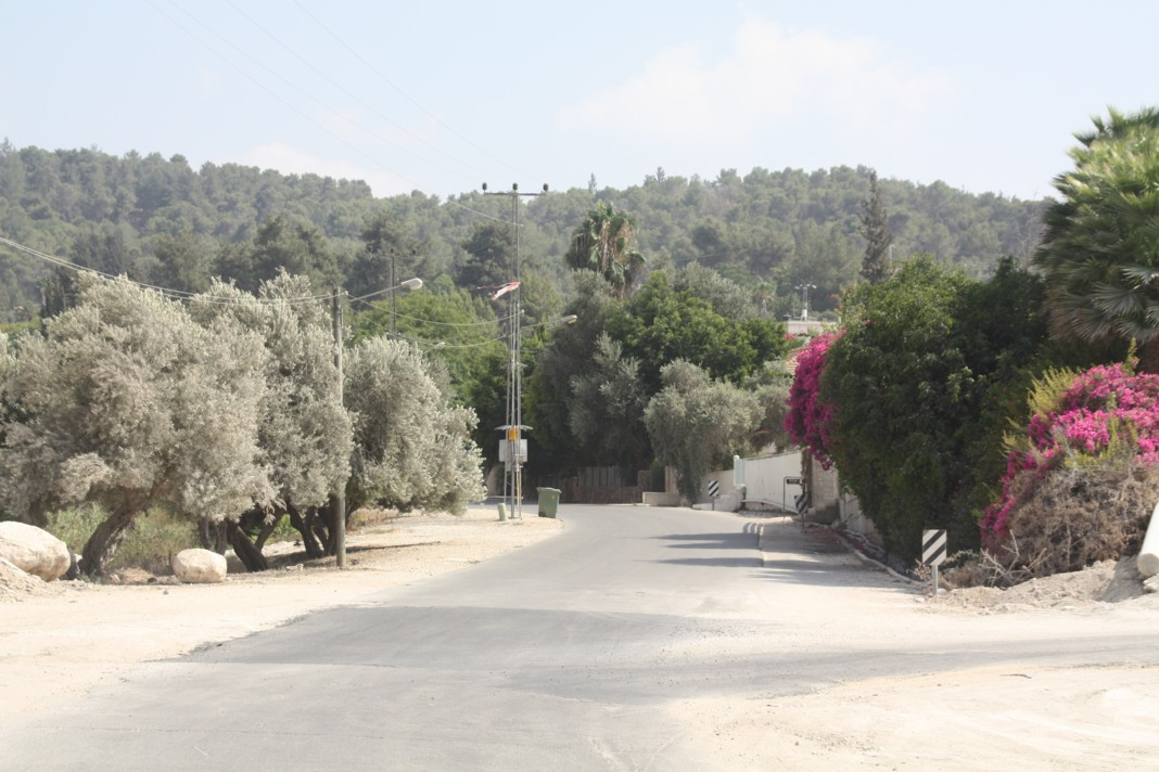 Tarom